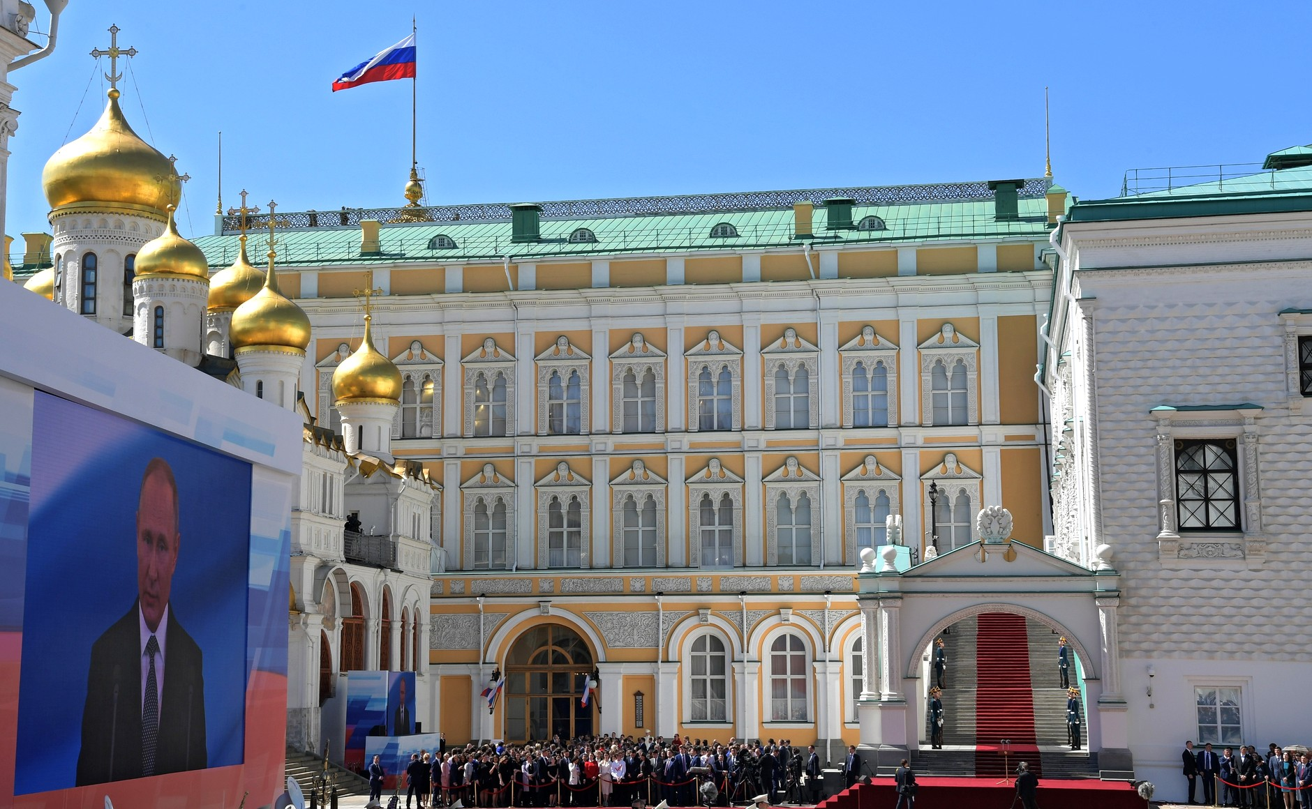 Vladimir Putin has been sworn in as President of Russia (2018-05-07)